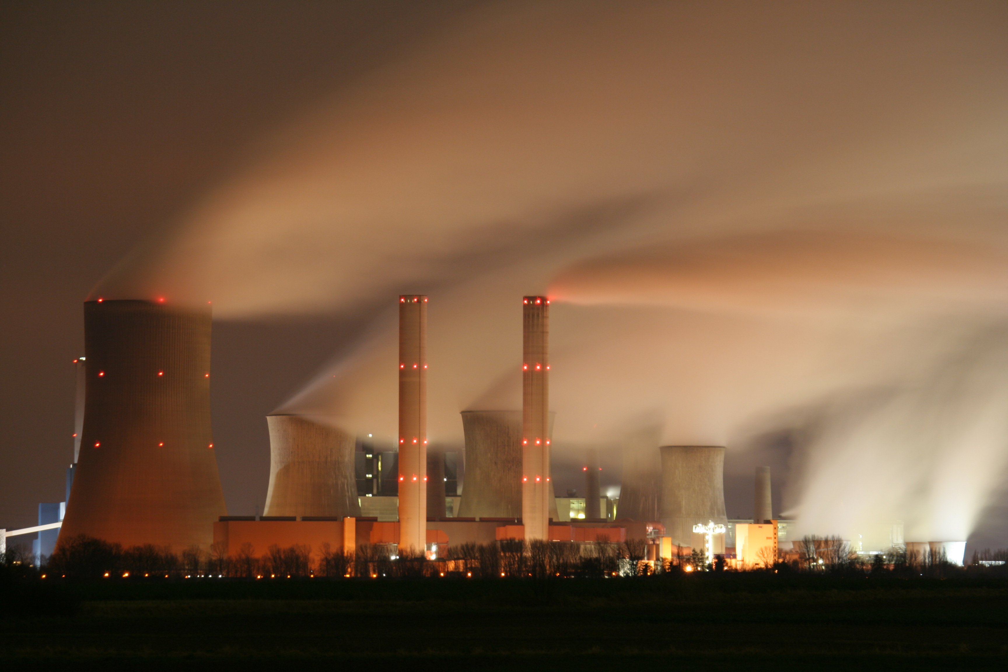 Lignitebased power plant Niederaußem at night (Units C-H).